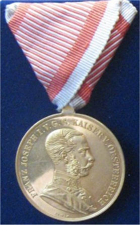 The austro-hungarian Golden Medal for Bravery; This version of the medal was awarded from 1866 to 1917